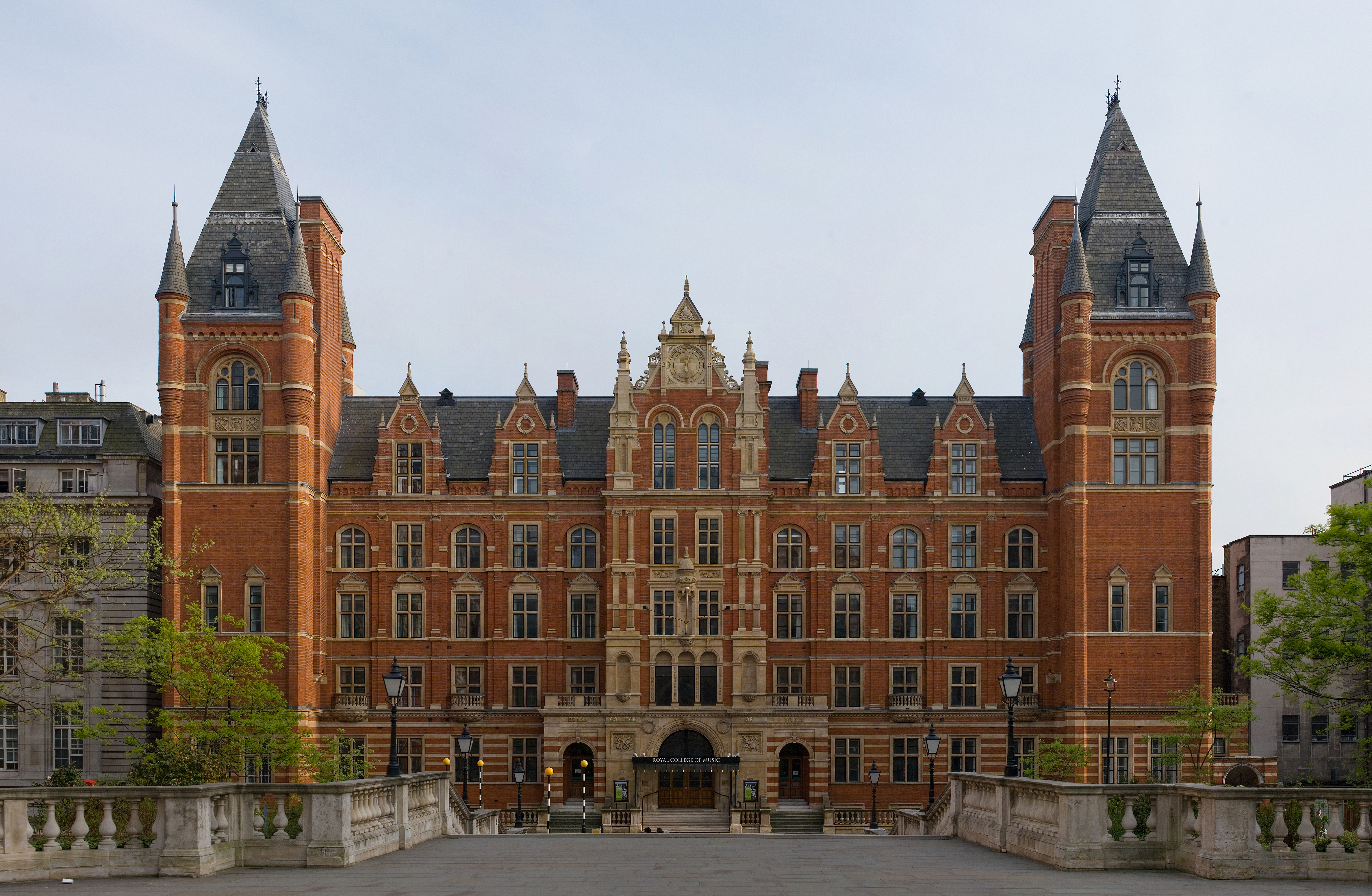 A 3×4 segment panoramic image of the Royal College of Music in London, England. Taken by myself with a Canon 5D and 70-200mm f/2.8L lens at 70mm.